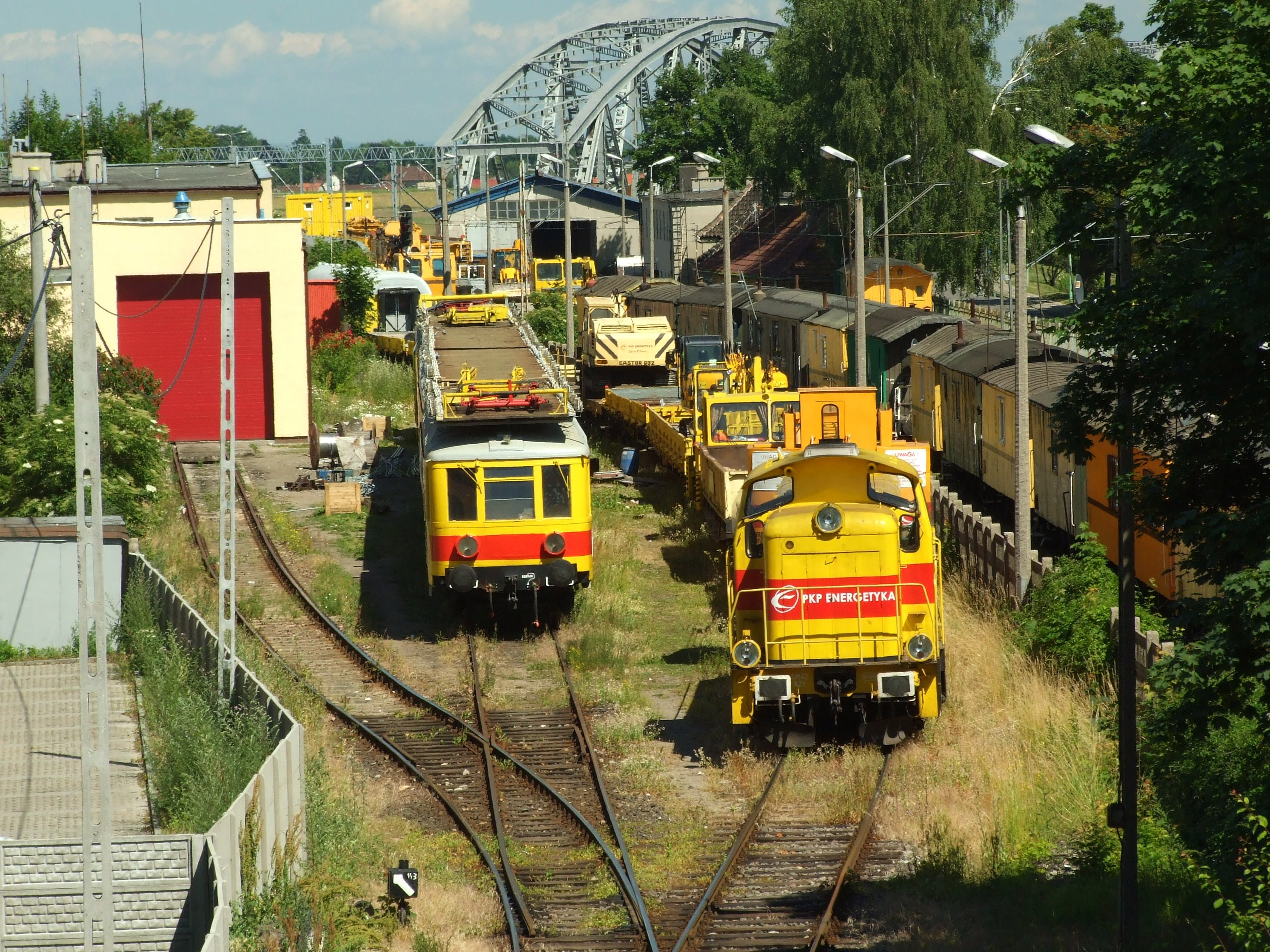 Some rail cars for construction works standing near Tczew train station and bridge across the Vistula river (first part of this bridge can be seen in the distance), Tczew, Pomorskie voivodship, PL